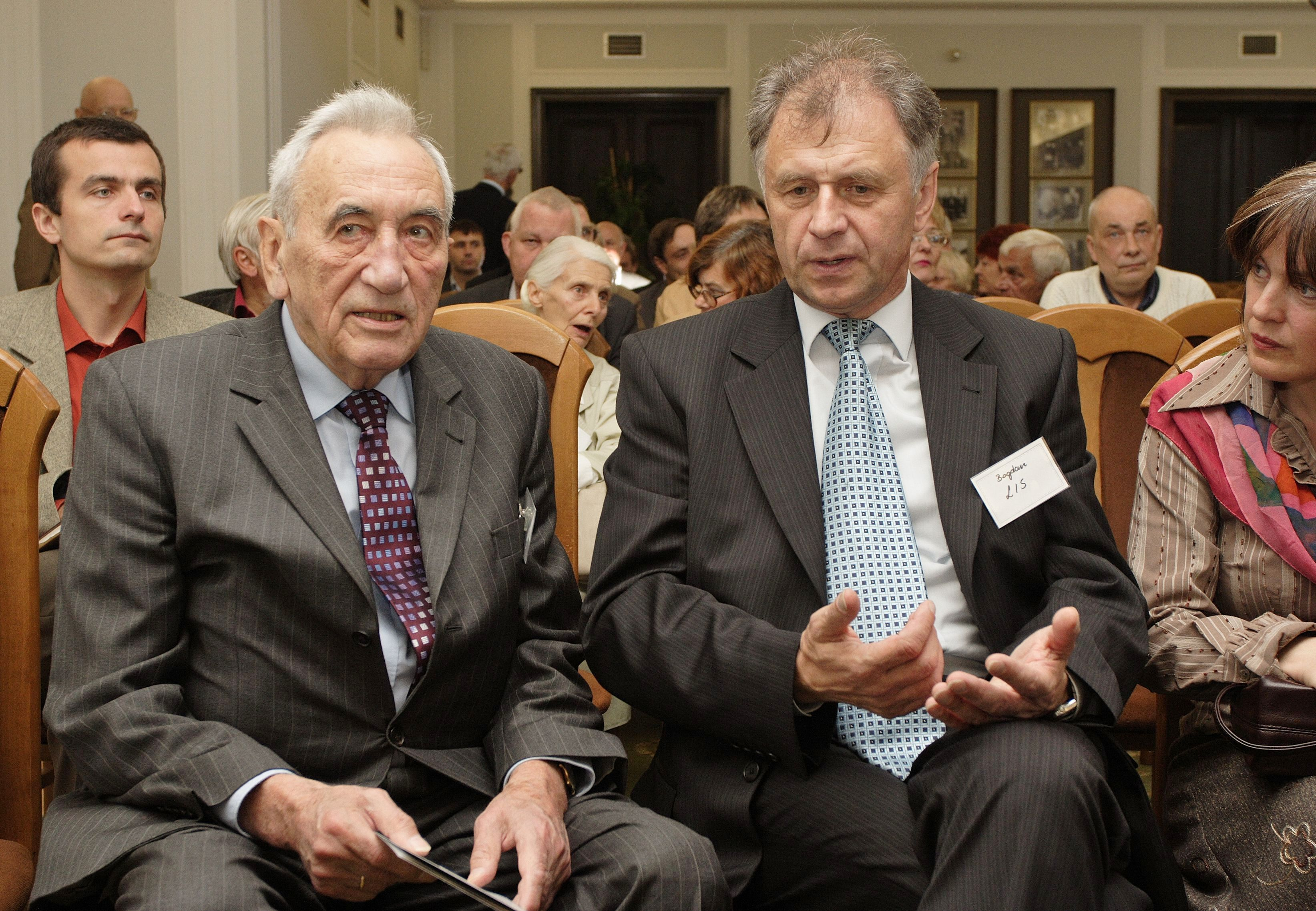 Tadeusz Mazowiecki and Bogdan Lis during the meeting commemorating 30th anniversary of the first issue of "Robotnik" held in the Polish Senate